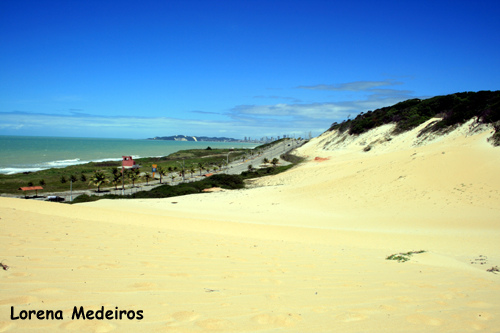 Via Costeira in Natal city, Brazil.